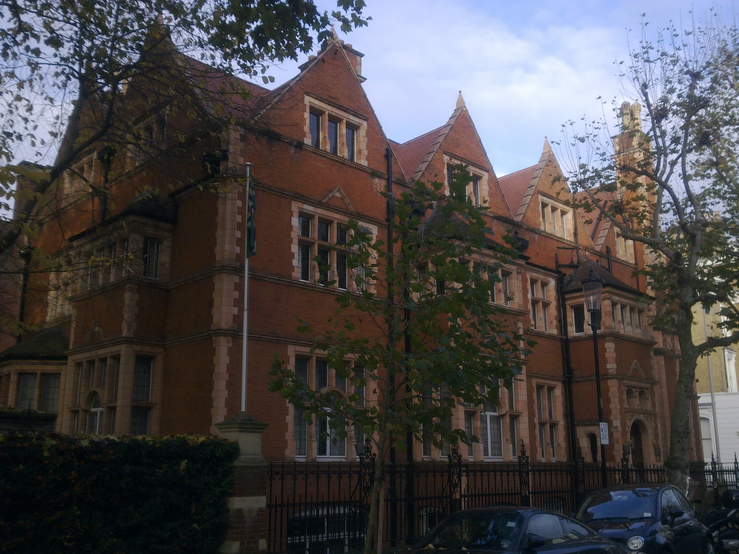 High Commission of Dominica in London 1